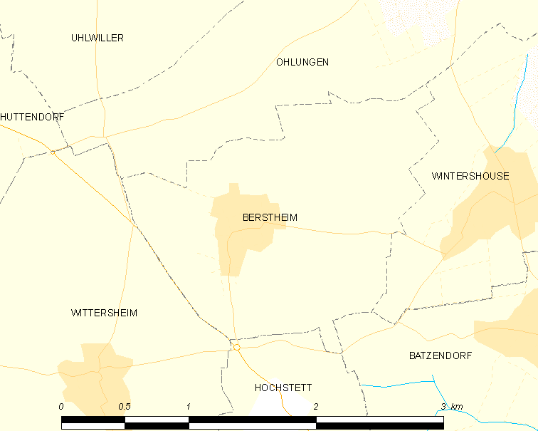 Map of French municipality